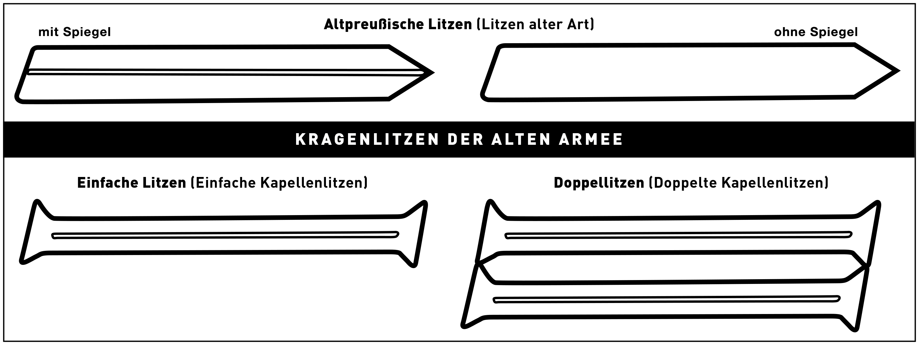 prussain collar patterns